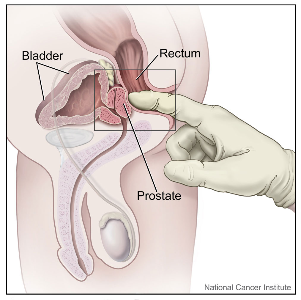 Title Digital Rectal Exam (Male) Description A doctor performs a digital rectal exam (DRE) by inserting a lubricated, gloved finger into the rectum to feel for abnormalities. The bladder, rectum, and prostate are labeled. Image is included in this online resource: Topics/Categories Anatomy -- Genitourinary Test or Procedure -- Physical Exam Type Color, Medical Illustration Source National Cancer Institute